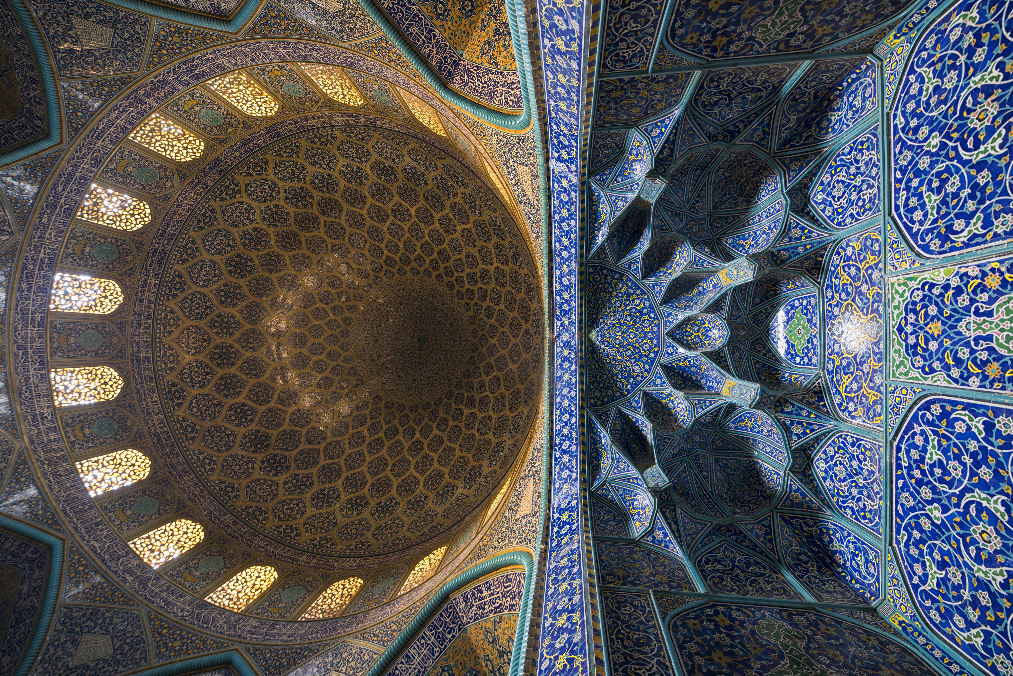 Sheikh Lotfollah Mosque. The difference between this photo and similar photos is that the red spotlight of the mosque is turned off, so the colors in this picture are more realistic.